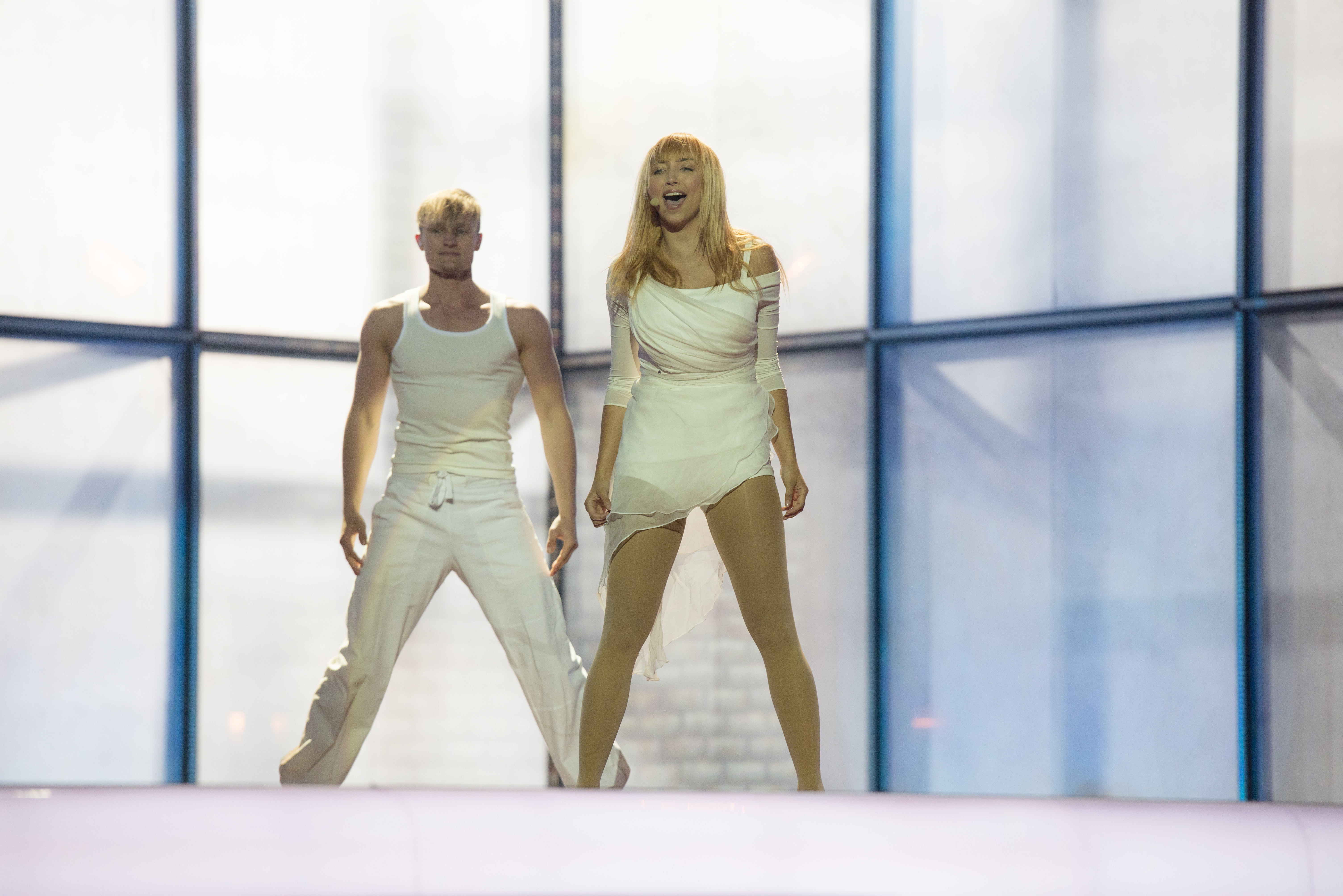 Tanja Mihhailova representing Estonia with the song "Amazing" during the first dress rehearsal of the first semi final of the Eurovision Song Contest 2014 Copenhagen. (Help translate this text)